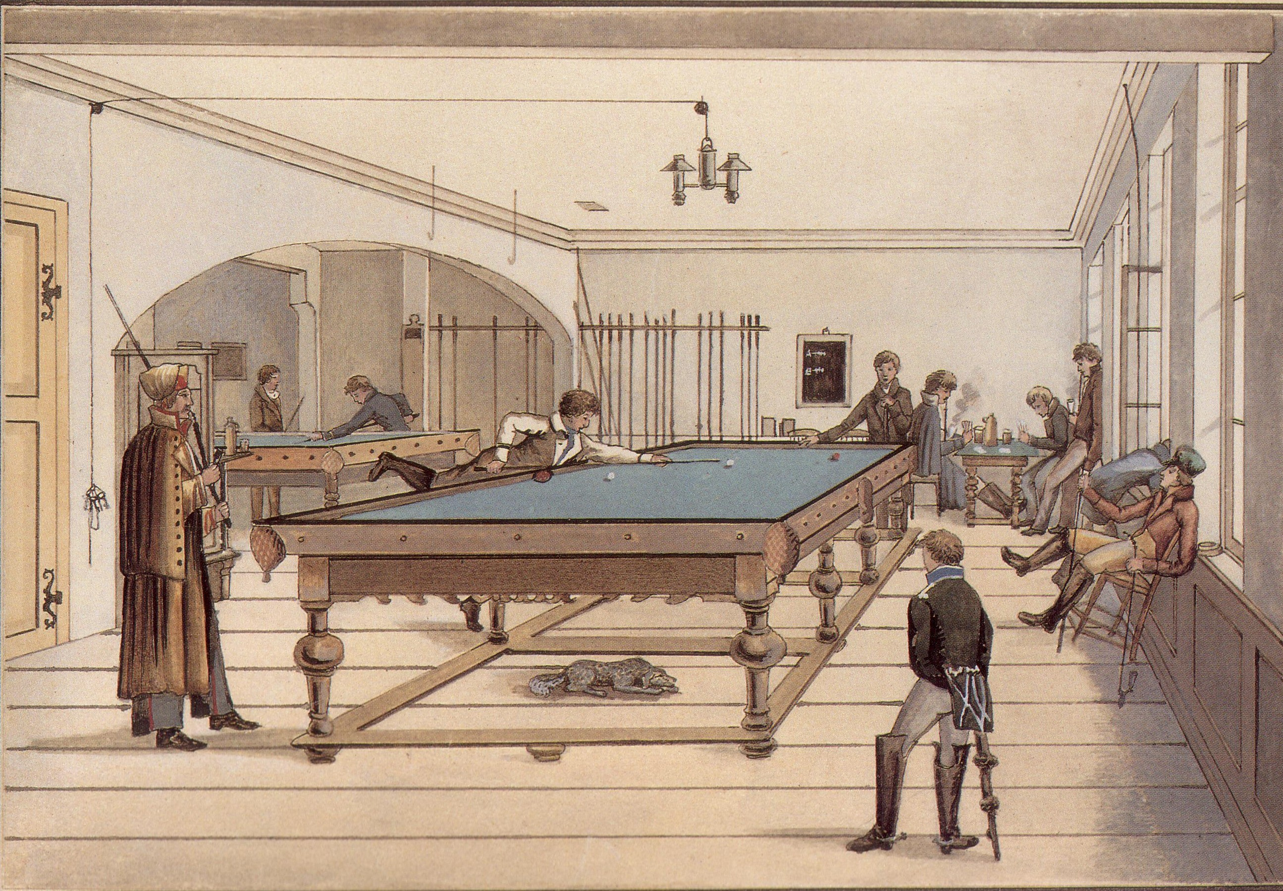 Tübingen students playing three-ball pocket billiards